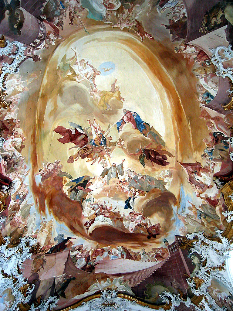 Zwiefalten, Germany: Ceiling painting in the main nave of the former abbey church, by Franz Joseph Spiegler (1751) Description: A beam of merciful light originates from the Virgin Mary, being reflected by a mirror held by an angel, and finally reaching Saint Benedict of Nursia. From Benedict, knowledge rains to Benedictine monks that are known as ardent admirers of Mary (Bernard of Clairvaux, Ildephons of Toledo, Hermann of Reichenau) and on defenders of the Faith (Saint Jerome, Rupert of Salzburg, Saint Dominic). On top of the scene, God the Father. Around the central scene, places of Marian pilgrimage: Genazzano (with Pope Urbanus VIII, Fourvière near Lyon (with King Louis XI of France), Santiago de Compostela, Einsiedeln, and Altötting, plus King I. István of Hungary who conscrates himself and his kingdom to Mary. Size: ca. 14.5 m x 30 m